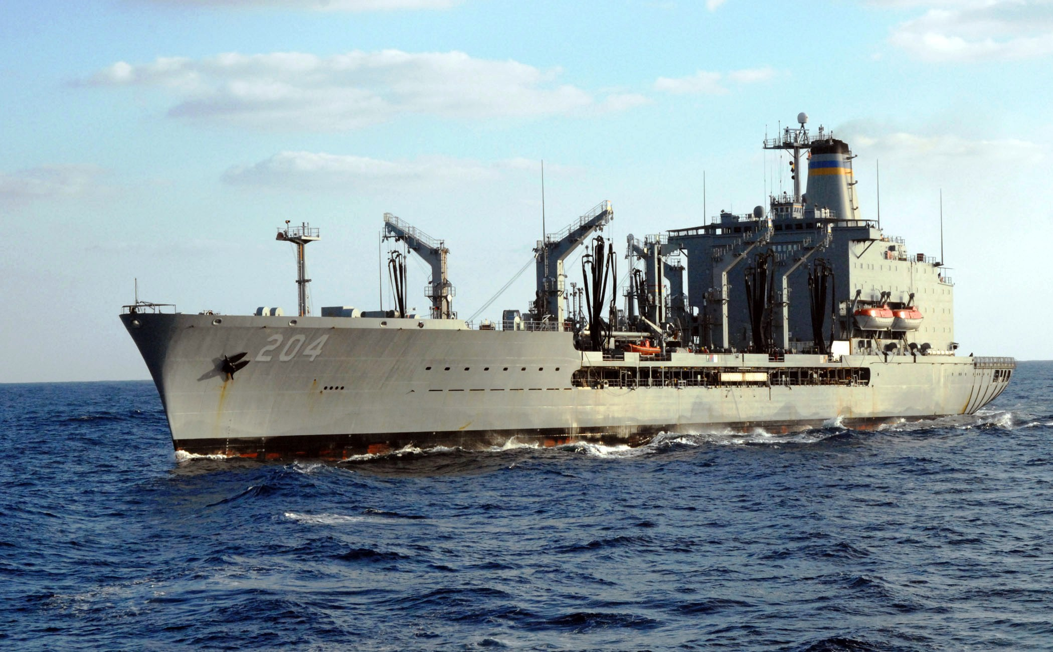 The Military Sealift Command fleet replenishment oiler USNS Rappahannock (T-AO 204) transits alongside the aircraft carrier USS George Washington (CVN 73) after a replenishment at sea.